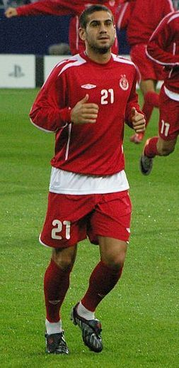 Roei Gordana, Hapoel Tel Aviv player